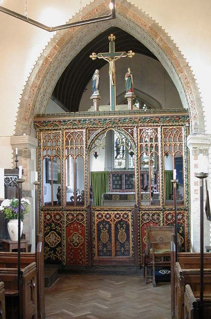 Church of england parish church of St Edward the Confessor, Westcot Barton or Westcott Barton, Oxfordshire: Transitional chancel arch with 15th century Perpendicular Gothic rood screen